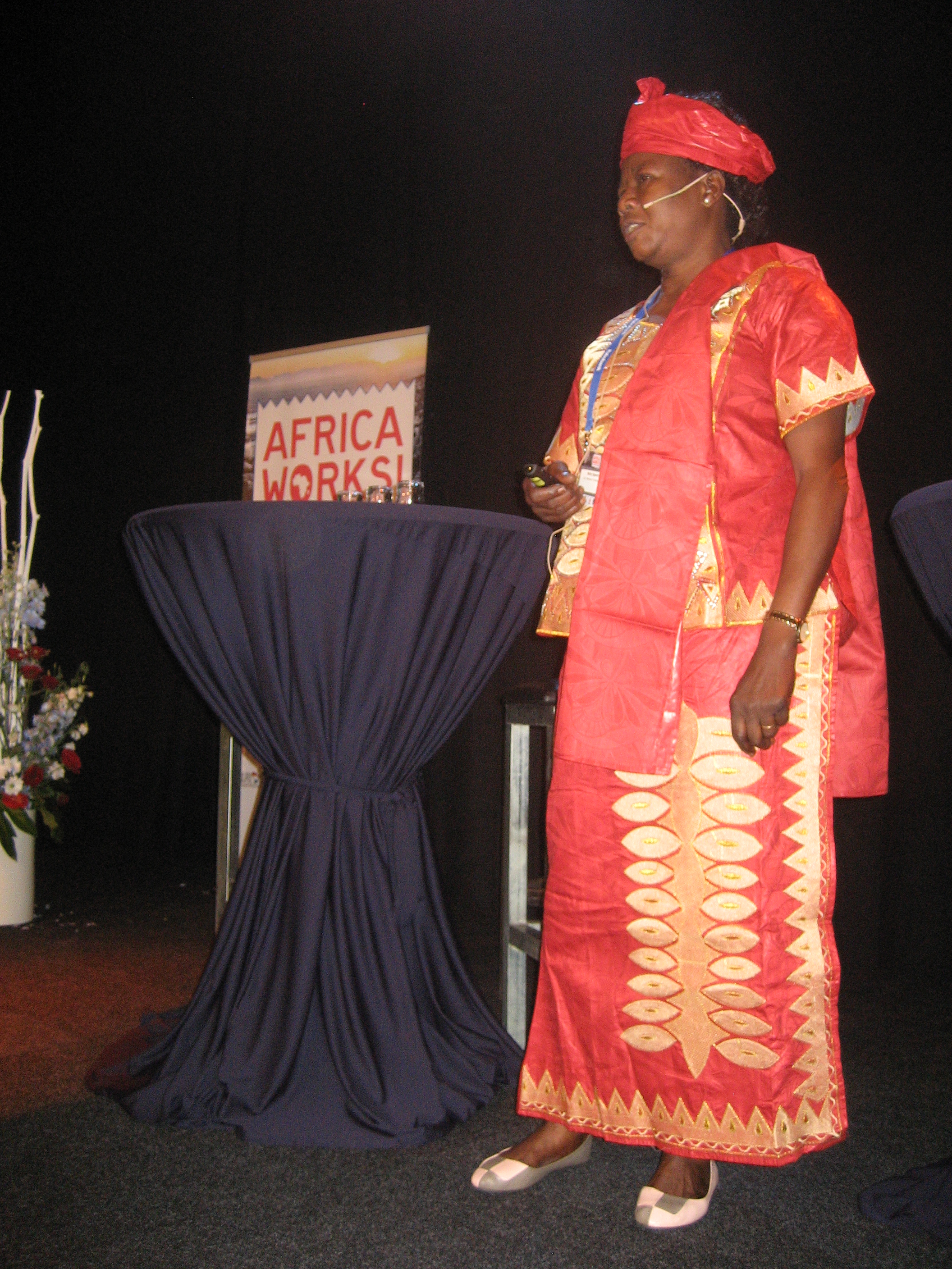 Betty Achan Ogwaro, parliamentarian and former minister in the government of South Sudan. Photograph taken in The Hague during the Africa Works! Conference 2014, organized by the African Studies Centre Leiden and NABC The Hague, 17 Oct. 2014.